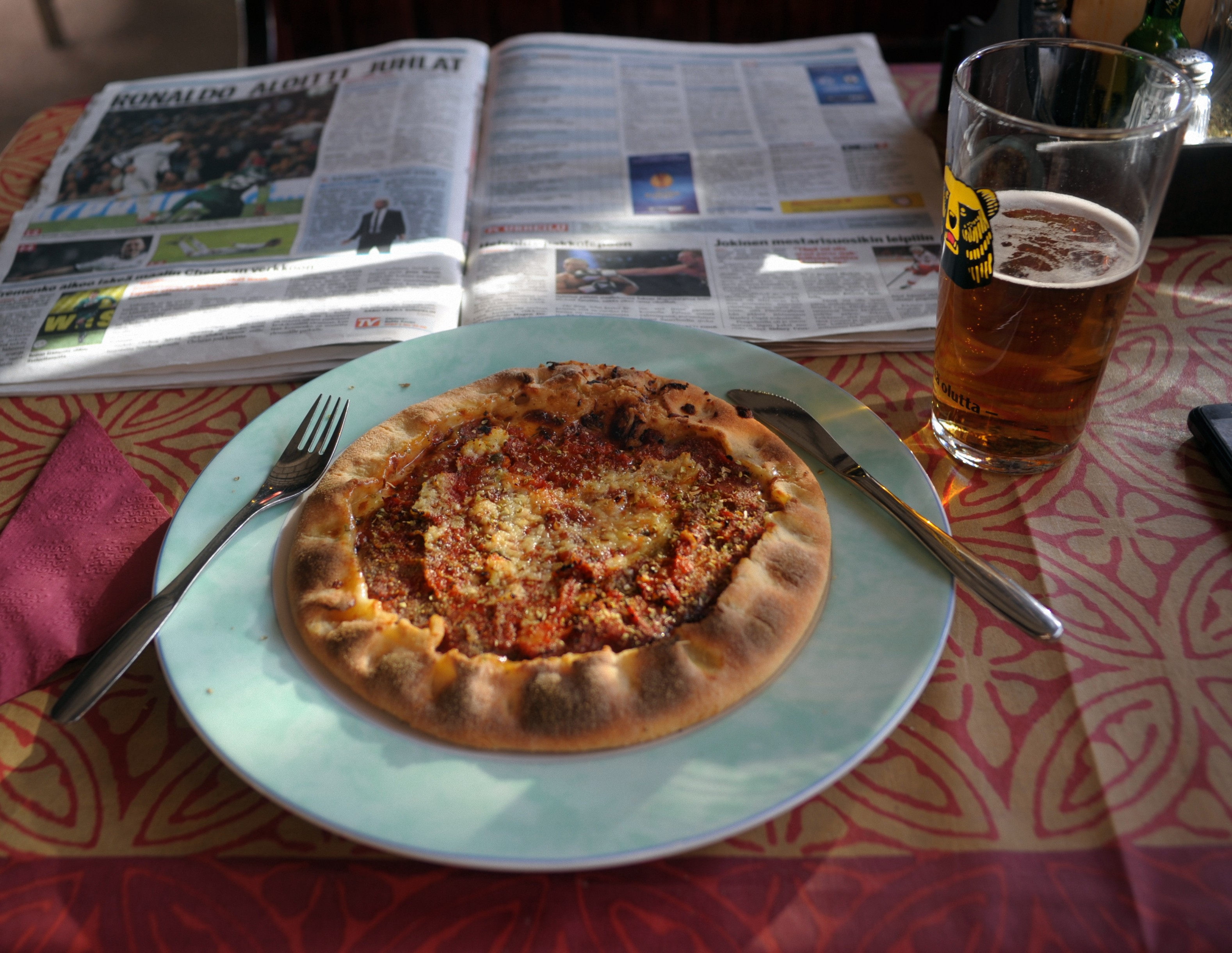 Mr Adriano Vinciguerra was originally an italian musician, who became a pioneer of Finnish pizzerias. His legendary restaurant(s) affected in Lappeenranta 1964-1987. Nowadays, his secret pizza recipe belongs to an another restaurant in Lappeenranta.